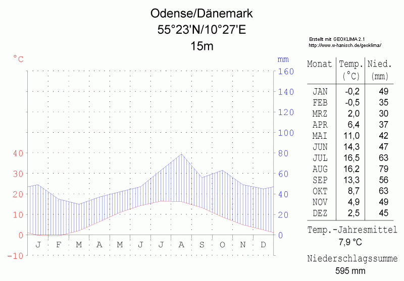 climate chart in the format by Walther and Lieth, metric, °Celsisus and millimeters, made with Geoklima 2.1